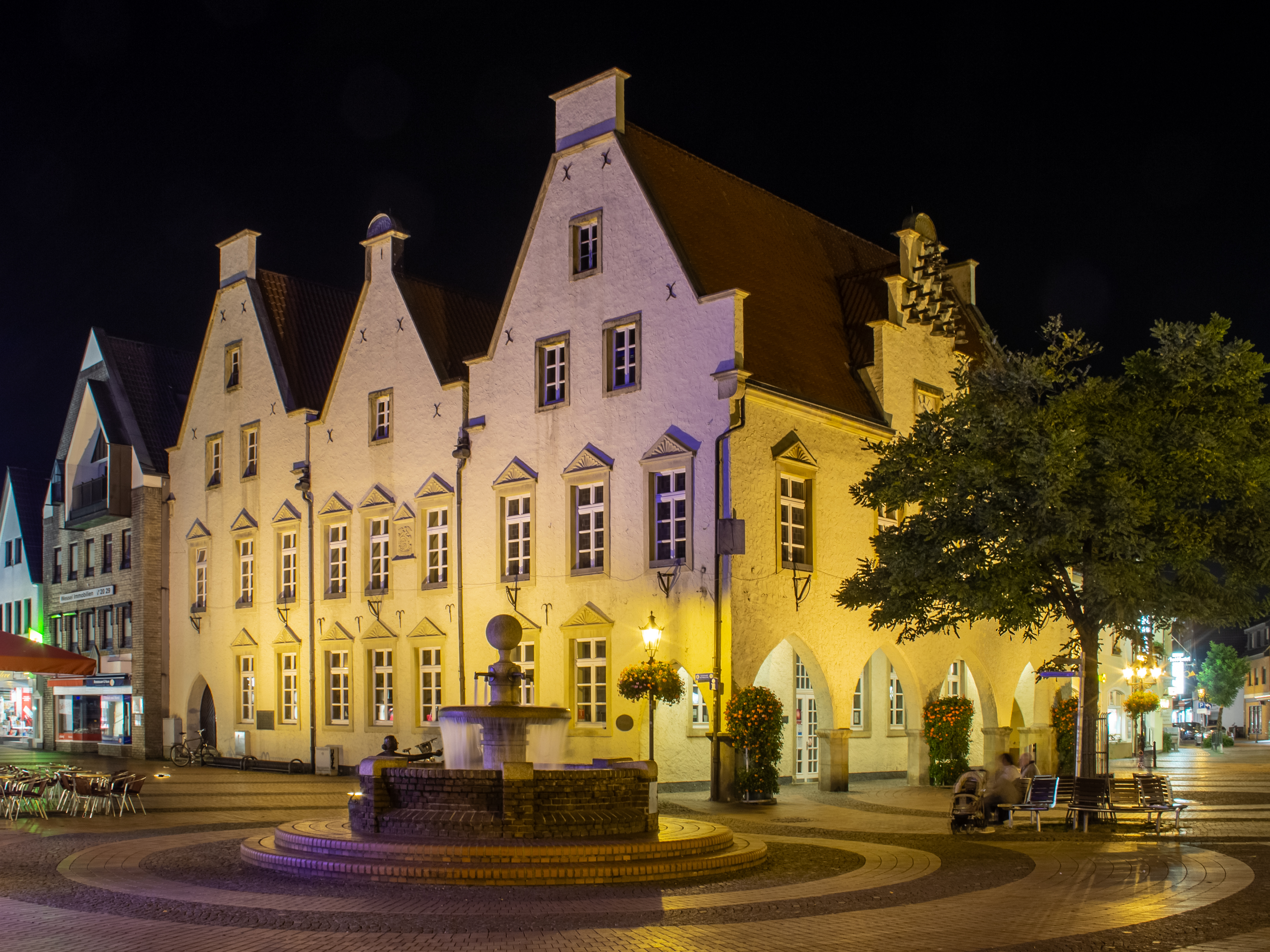 Old town hall building in Haltern am See, Germany This image shows a heritage building in Germany, located in the North Rhine-Westphalian city Haltern am See (no. 2).